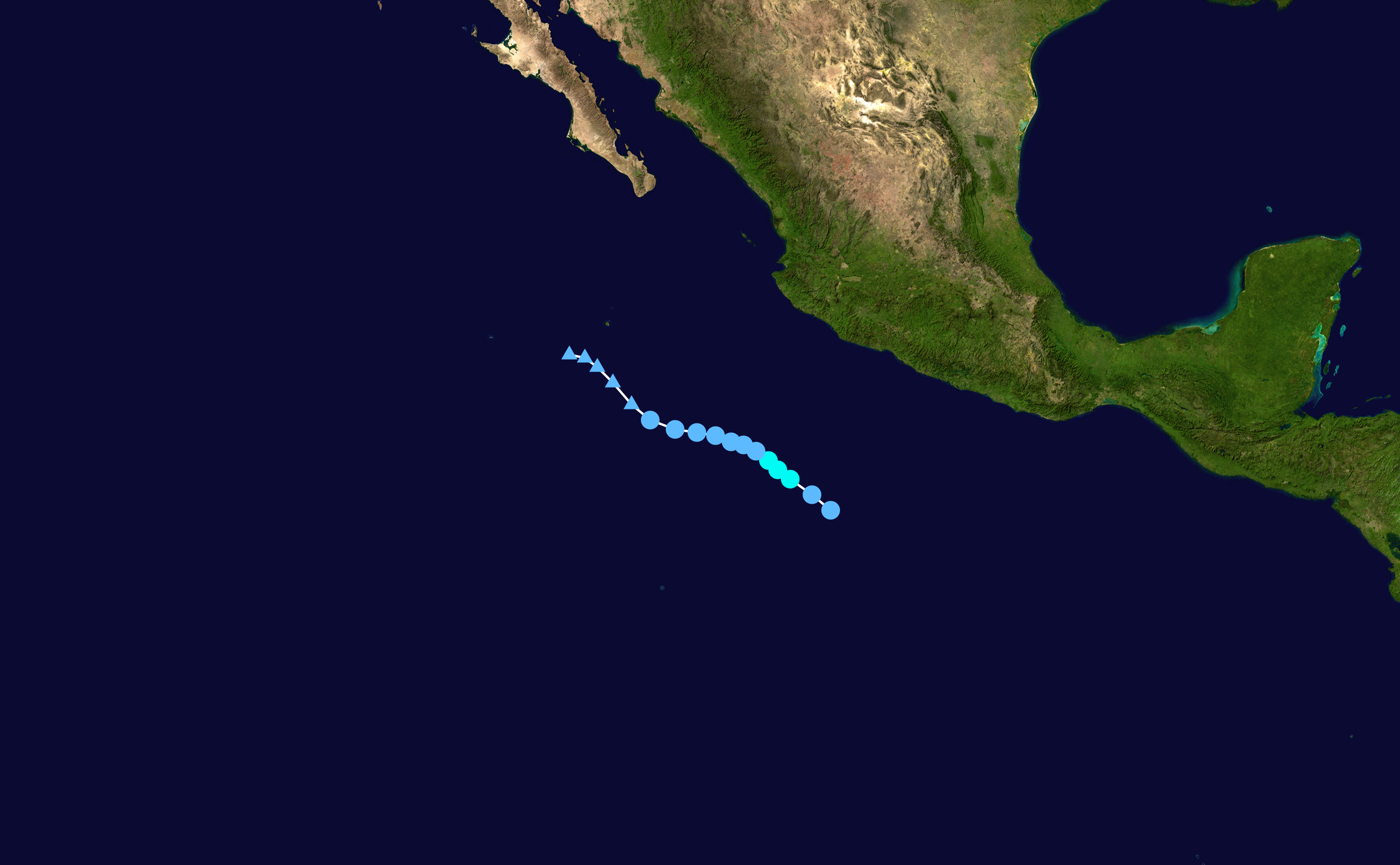 Track map of Tropical Storm Gilma of the 2006 Pacific hurricane season. The points show the location of the storm at 6-hour intervals. The colour represents the storm's maximum sustained wind speeds as classified in the Saffir–Simpson scale (see below), and the shape of the data points represent the nature of the storm, according to the legend below. Saffir–Simpson scale Tropical depression≤38 mph≤62 km/h Category 3111–129 mph178–208 km/h Tropical storm39–73 mph63–118 km/h Category 4130–156 mph209–251 km/h Category 174–95 mph119–153 km/h Category 5≥157 mph≥252 km/h Category 296–110 mph154–177 km/h Unknown Storm type Tropical cyclone Subtropical cyclone Extratropical cyclone / Remnant low / Tropical disturbance / Monsoon depression